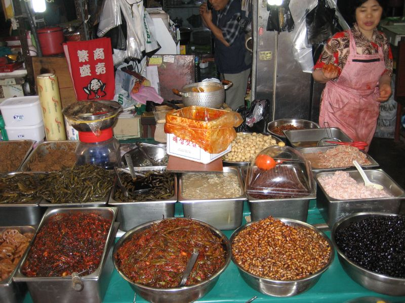 Various banchan, Korean side dish accompanied with white rice.